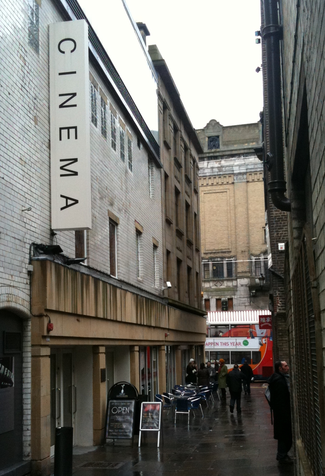 The exterior of the Tyneside Cinema in Newcastle upon Tyne, looking towards Pilgrim Street.